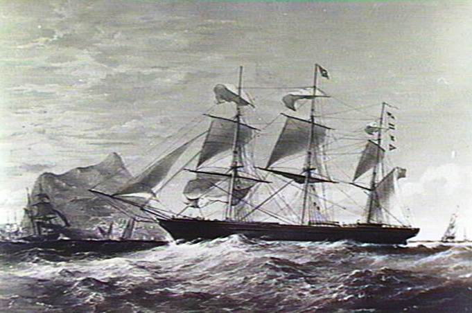 Clipper ship Orient c. 1860